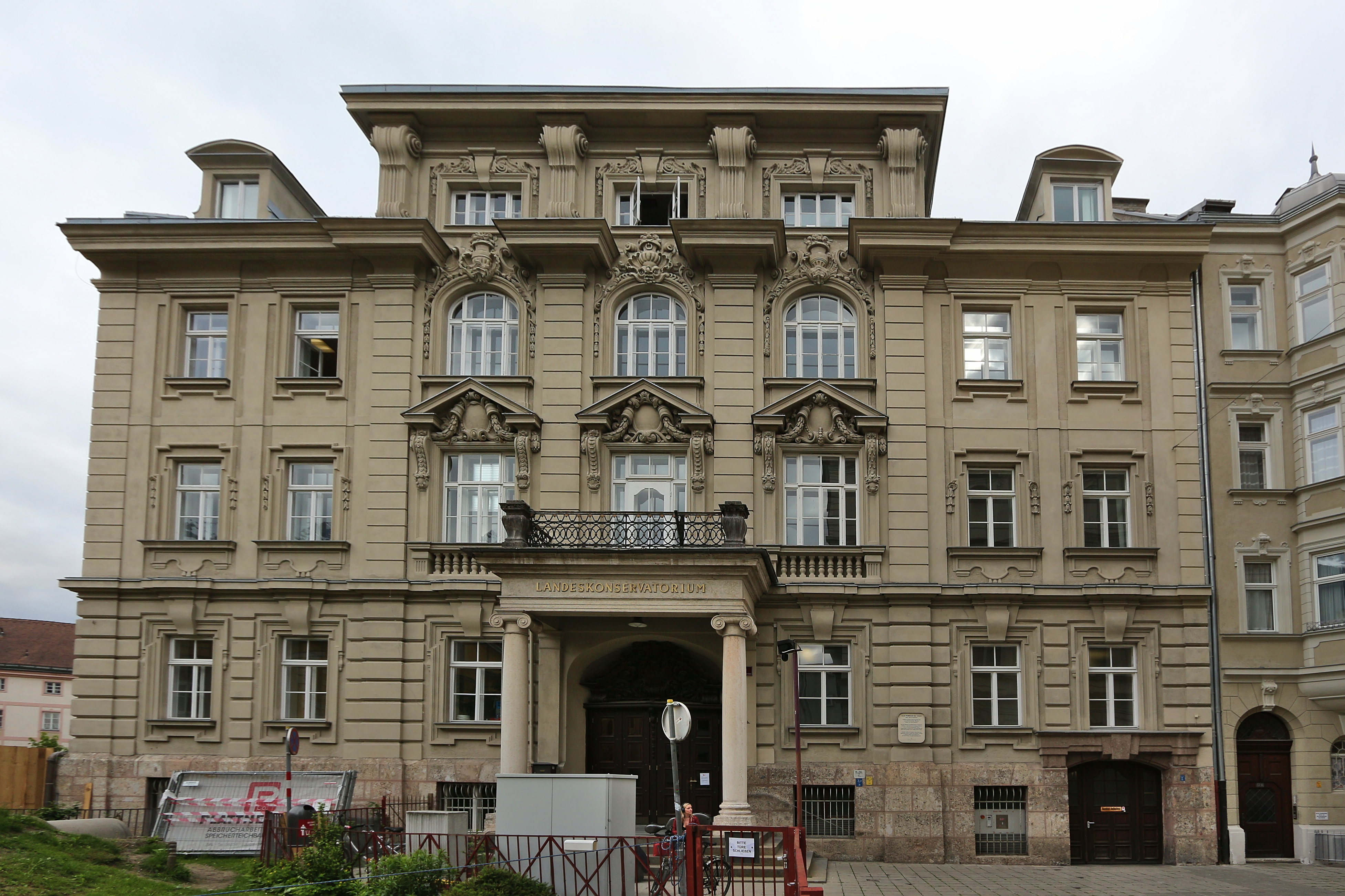 Paul-Hofhaimer-Gasse 6